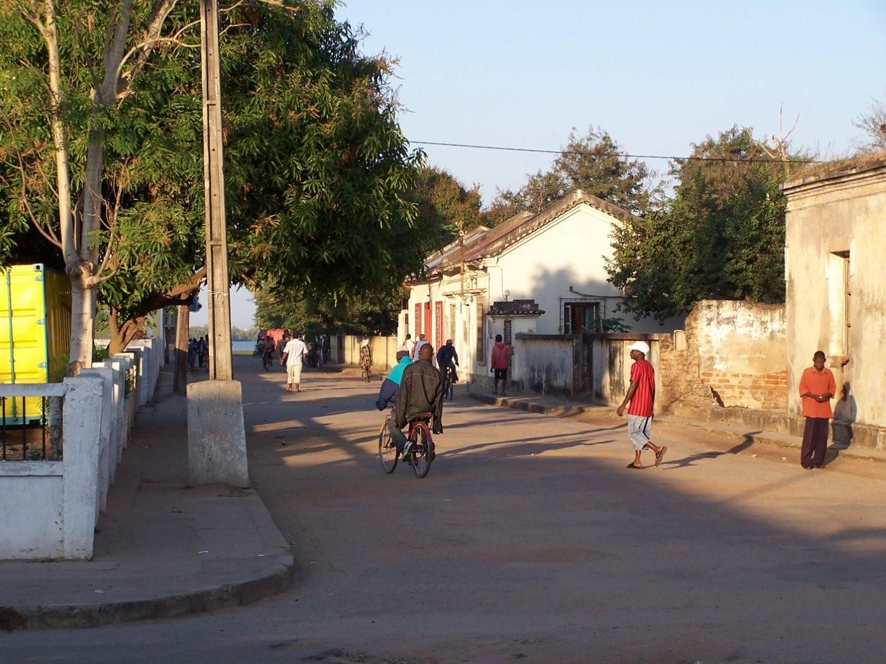 Quelimane. Quelimane, Mozambique, Quelimane.